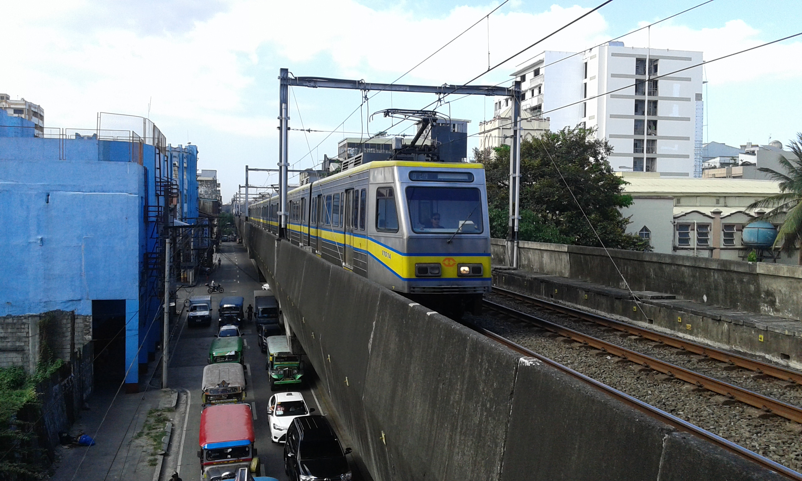 LRT-1 Series 1100 at Doroteo Jose Station